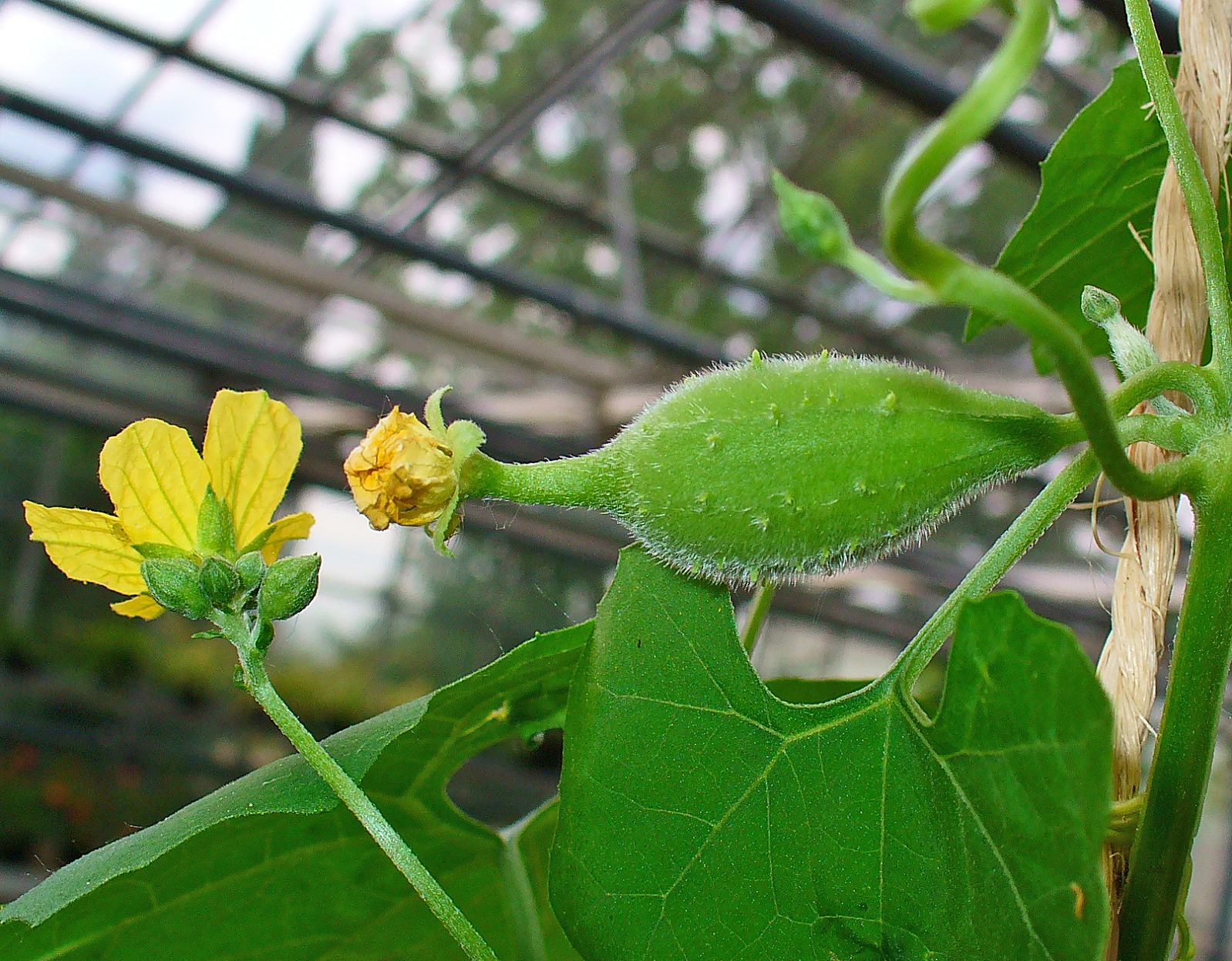 Luffa operculata, Cucurbitaceae, Esponjilla, flower and developing fruit.